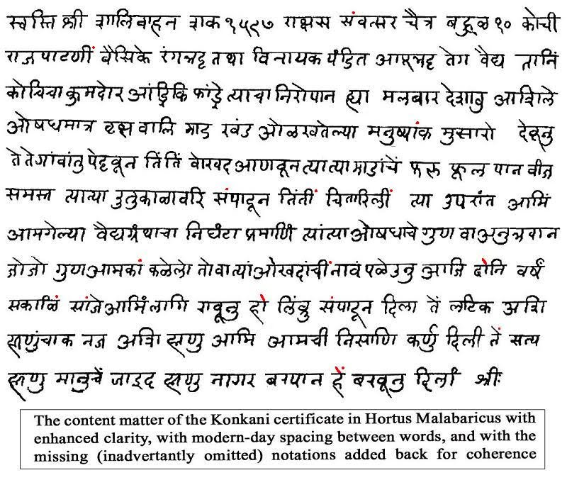 The photo had been taken from a botanical document in dutch called Hortus Malabaricus compile 325 years ago by Hendrik van Rheede. It is not under copyright.